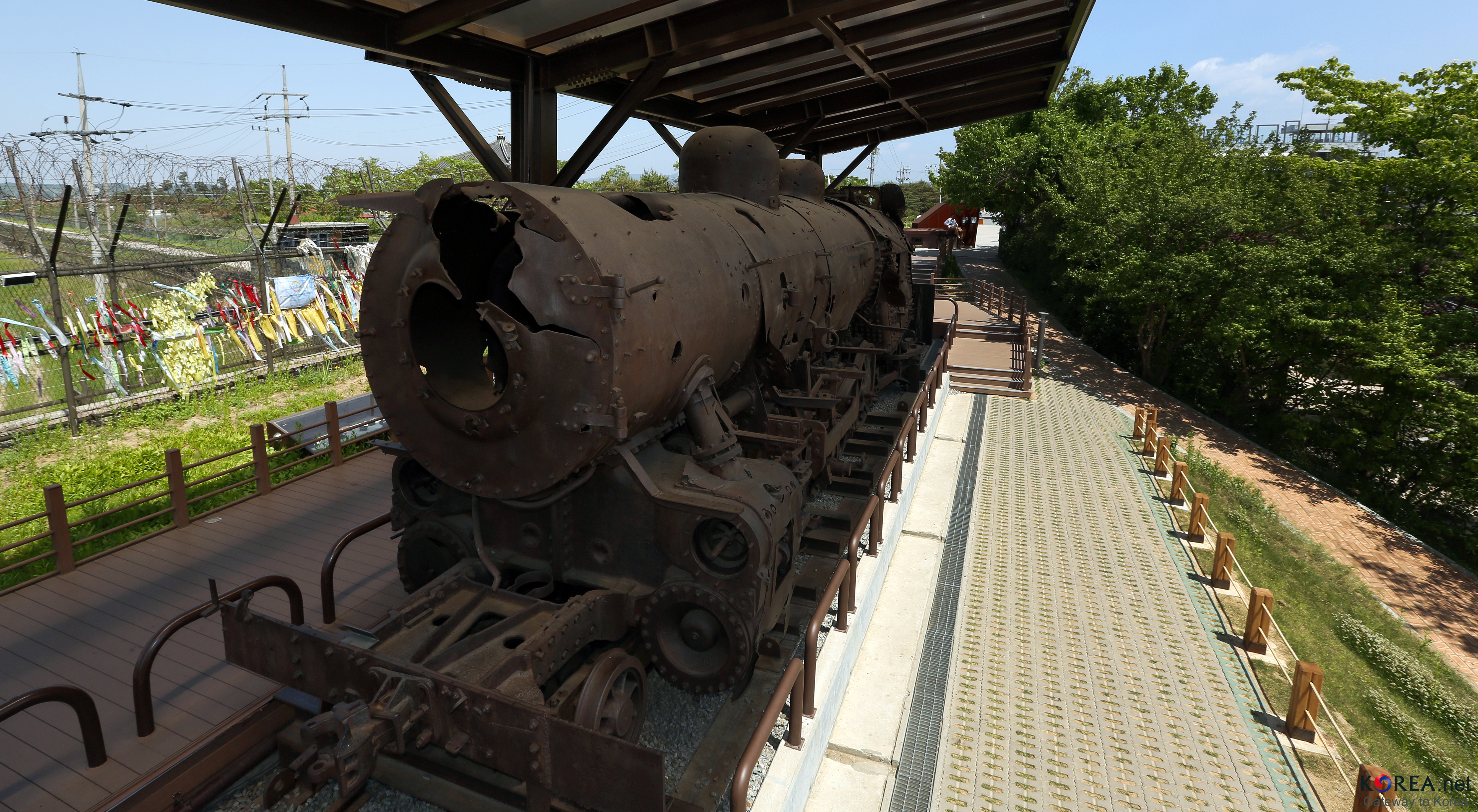 DMZ Train Imjingak May 21, 2014 From Seoul Station to Dorasan Station Ministry of Culture, Sports and Tourism Korean Culture and Information Service ( Official Photographer: Jeon Han This official Republic of Korea photograph is licensed as free content, so while restrictions such as personality or privacy rights may apply, in general, manipulations are allowed. If you want a photograph without a watermark, you may ask via Flickr e-mail. 평화열차 DMZ Train 임진각 2014-05-21 서울역-도라산역 문화체육관광부 해외문화홍보원 코리아넷 전한